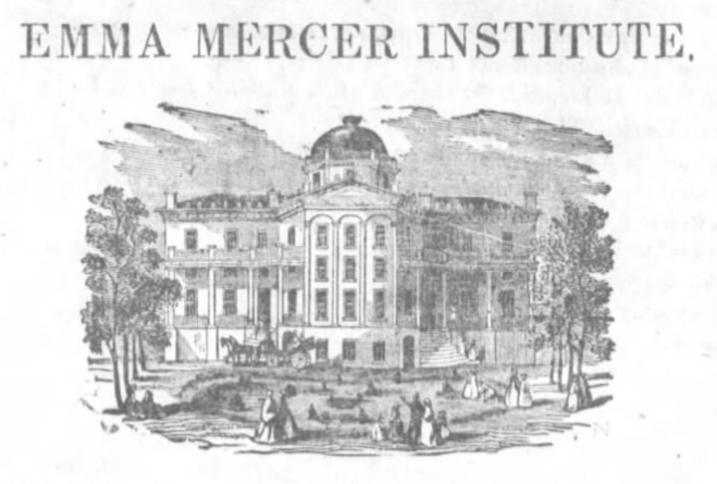 A sketch of the Emma Mercer Institute of Grenada, Mississippi, circa 1868. Originally part of a newspaper advertisement for the school.